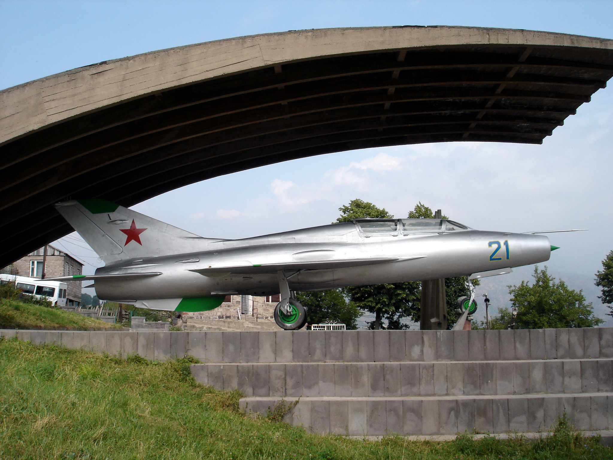 A MiG-21U Mongol-A trainer aircraft at Mikoyan's birthplace Sanahin, Armenia.